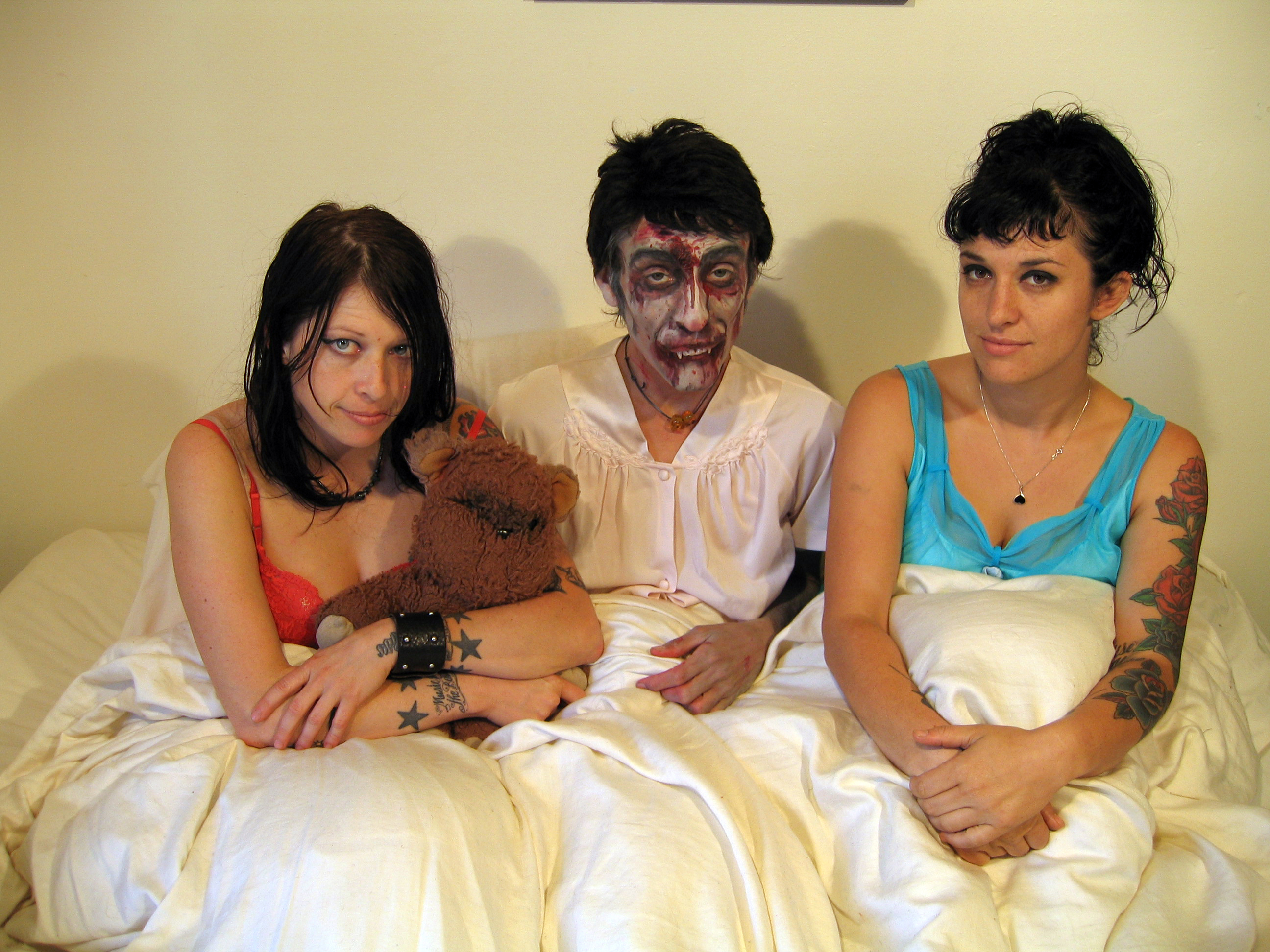 Sarah Reed and Sadie Shaw in bed with a zombie